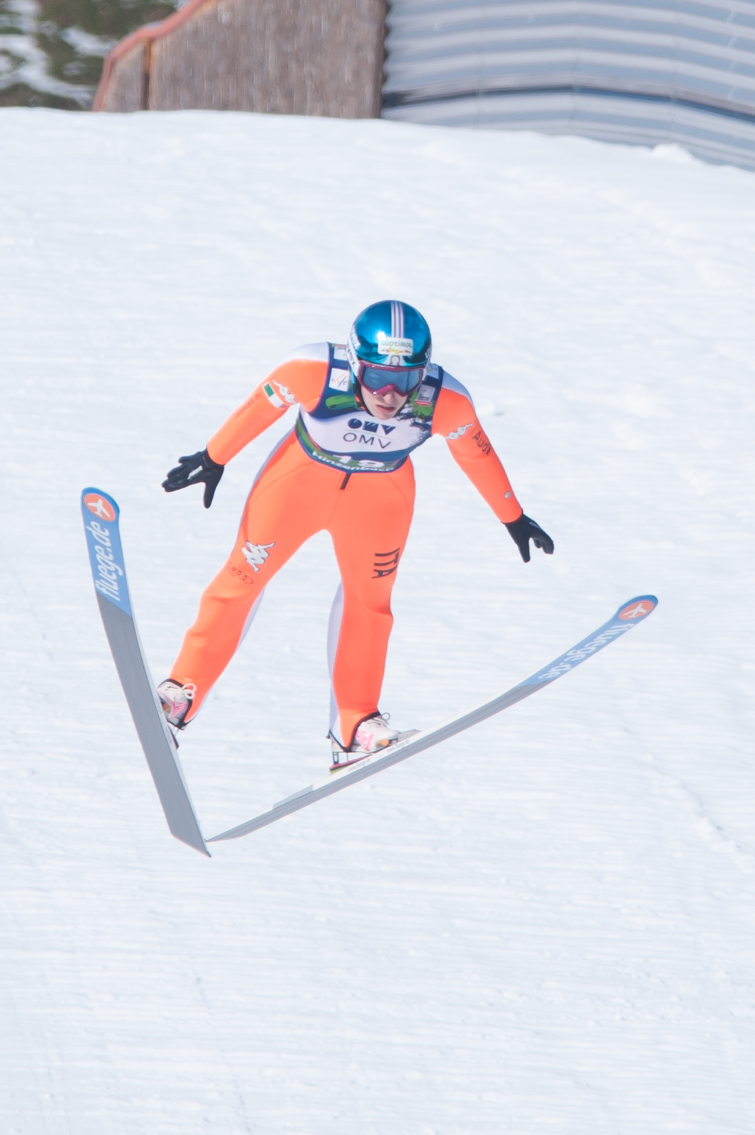 FIS Ski Jumping World Cup Hinzenbach Sun 1 Feb 2015